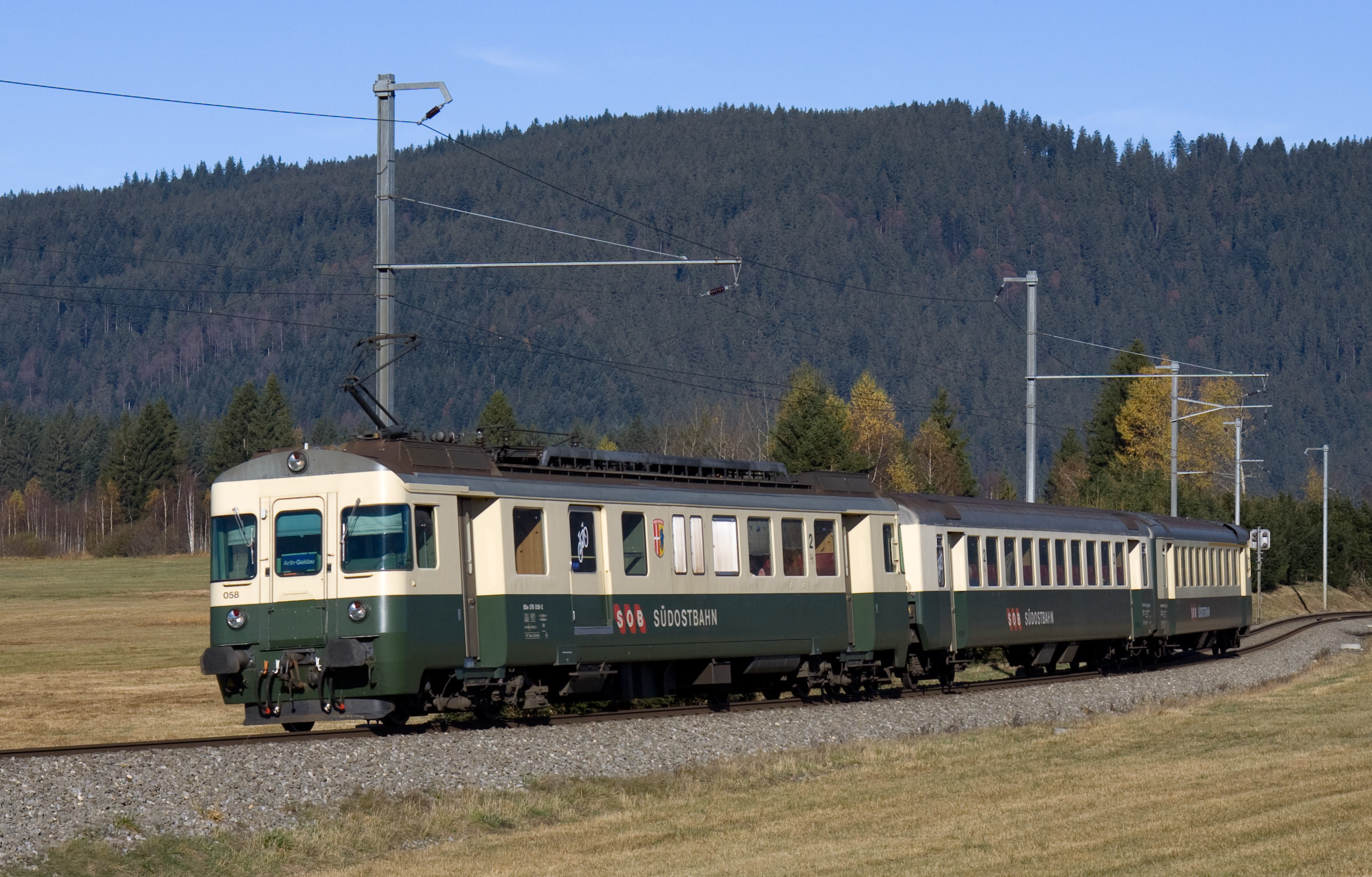 SOB push-pull train consisting of multiple unit BDe 4/4 058, a second class carriage (B) and a first and second class control car (ABt) between Biberbrugg and Altmatt.